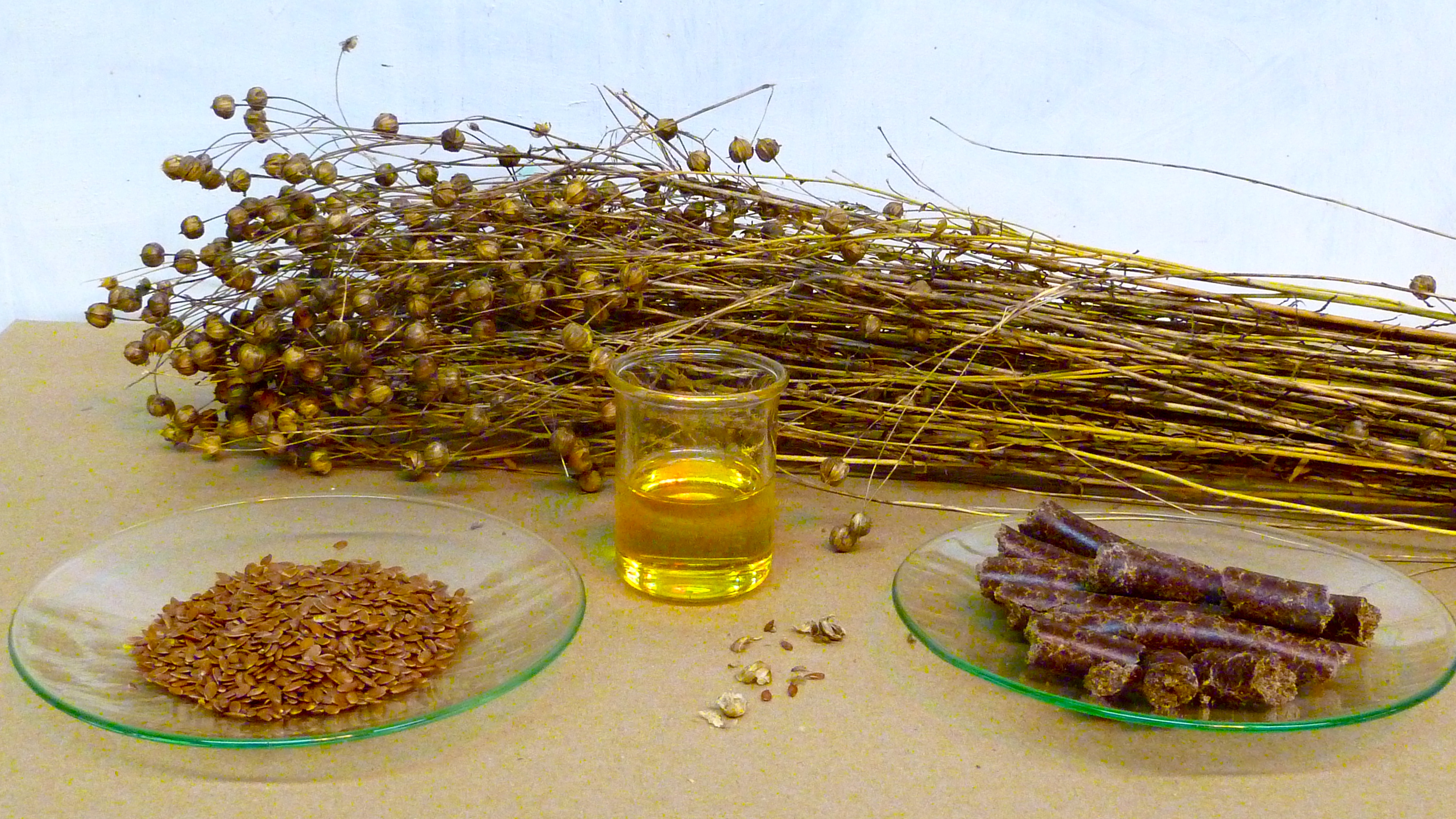 For the production of high quality linseed oil the seeds of the flax plant are cold pressed. The residue, called linseed cake is a high quality and nutritious animal food.